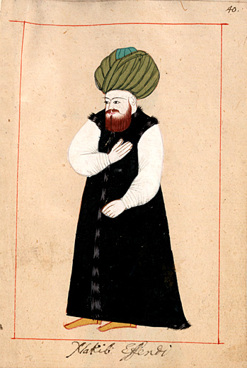 Chief of the Prophet's descendants Nakib Effendi. The numerous corporation of Muhammed's descendants formed a kind of nobility with the privilege of carrying green turbans.